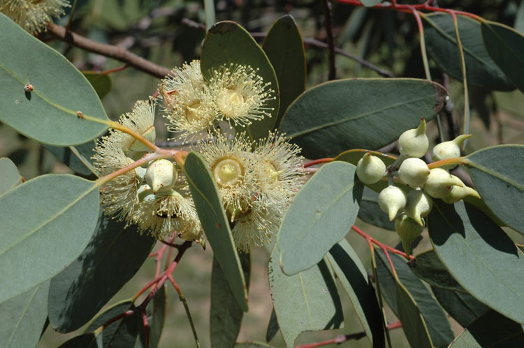 Flower buds and flowers of Eucalyptus oldfieldii in Burrendong Arboretum, near Wellington, New South Wales